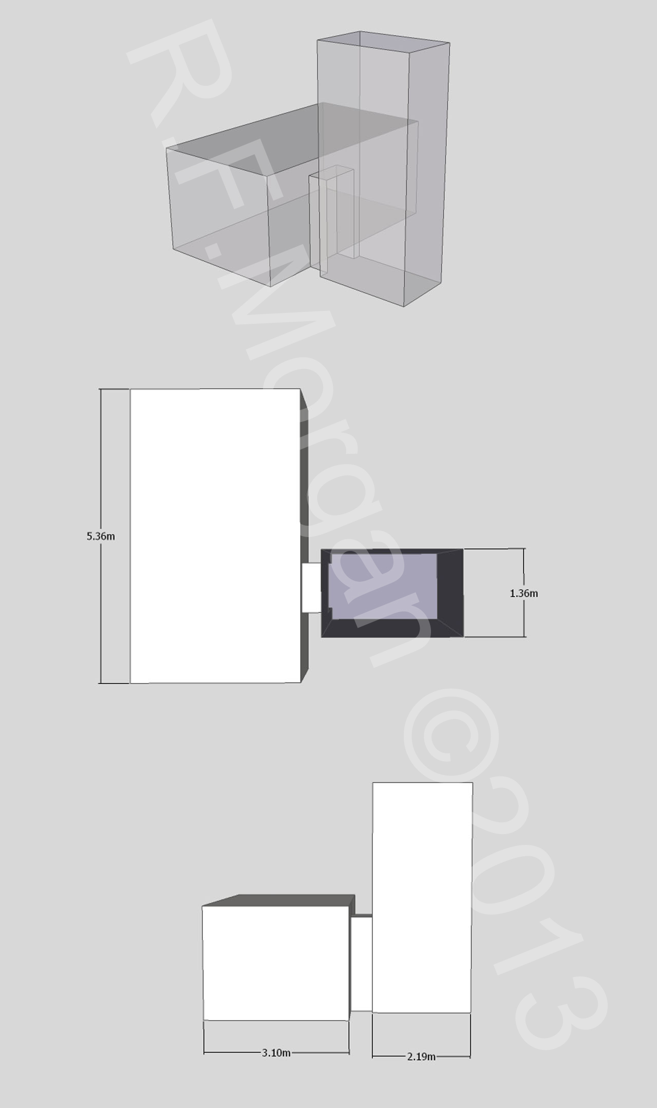 Isometric, plan and elevation images of KV45 taken from a 3d model